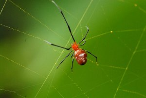 Argyrodes flavescens in a web ob Nephila pilipies